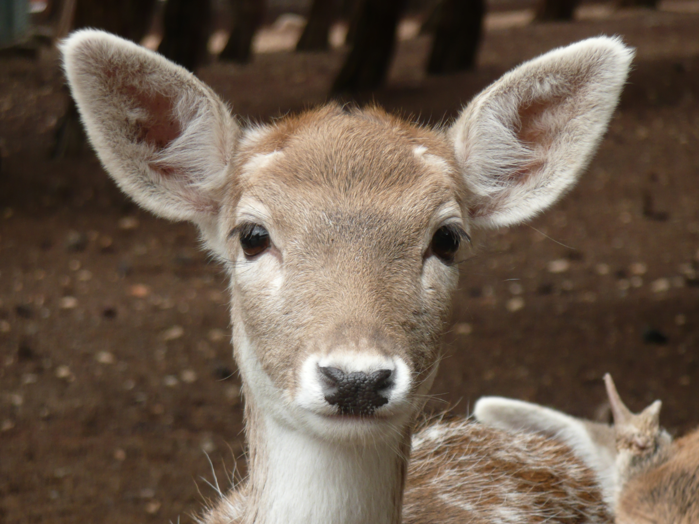 Cervus dama at Gaziantep zoo